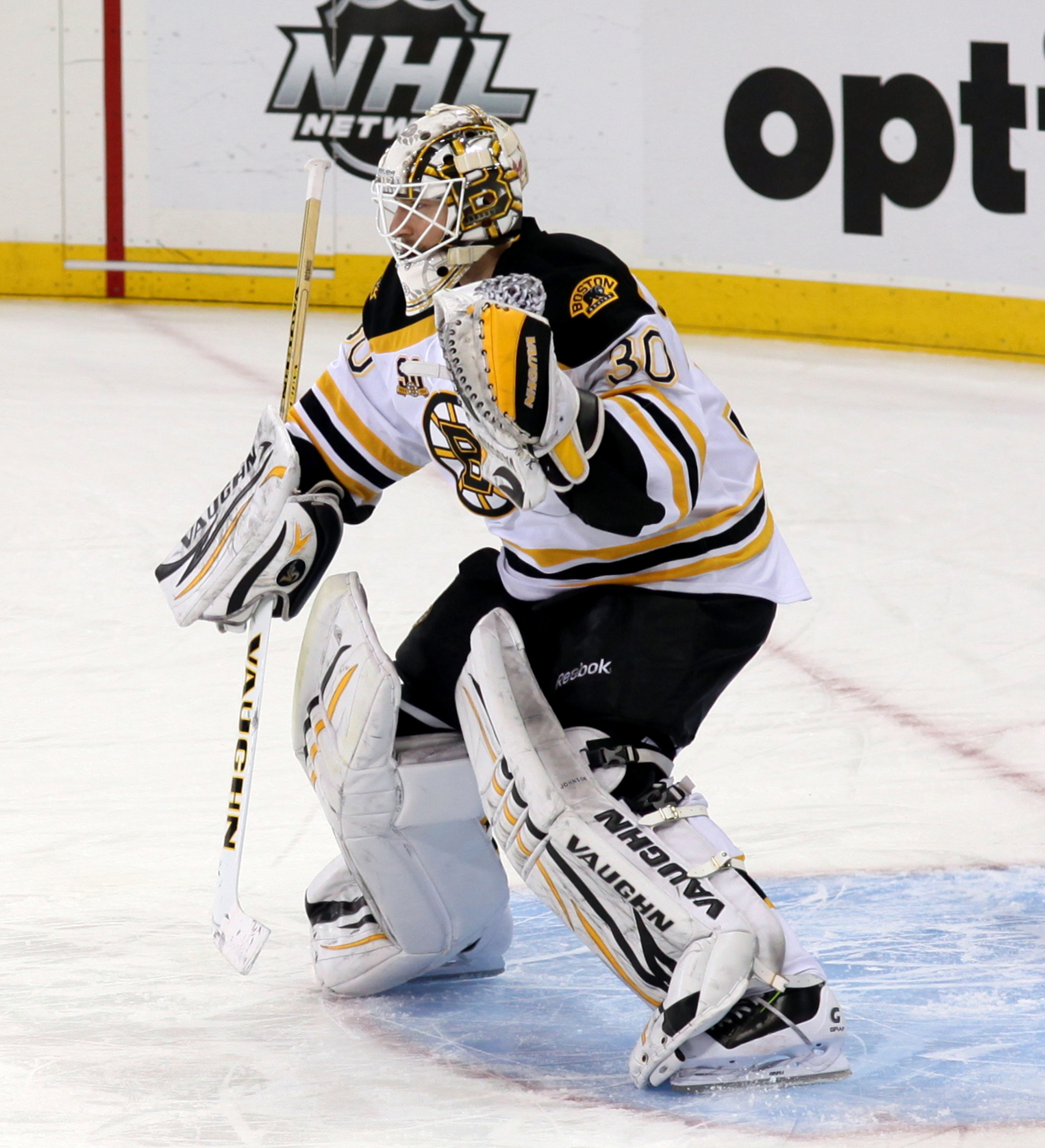 Chad Johnson in 2013.